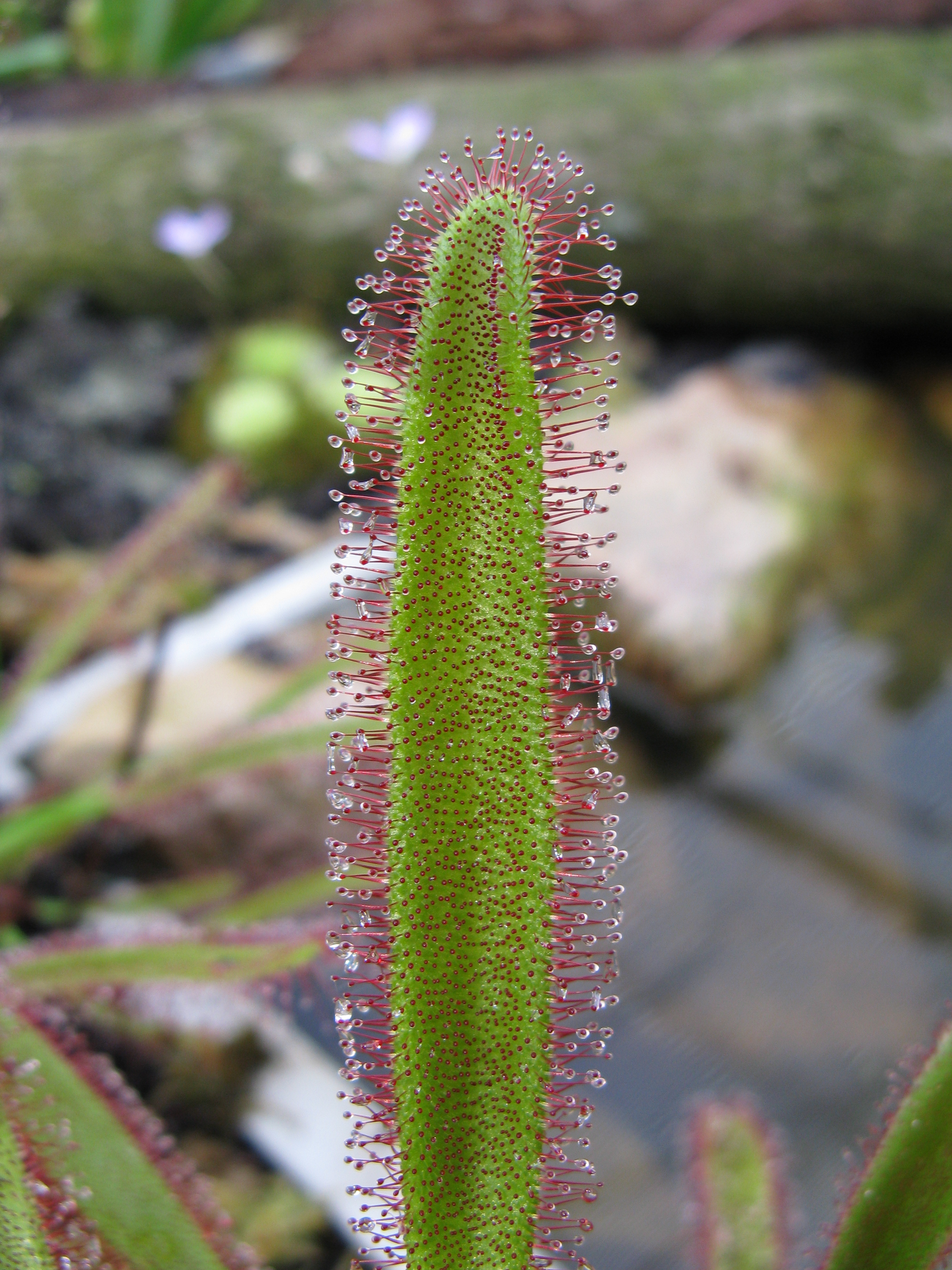 sundew (Drosera capensis)